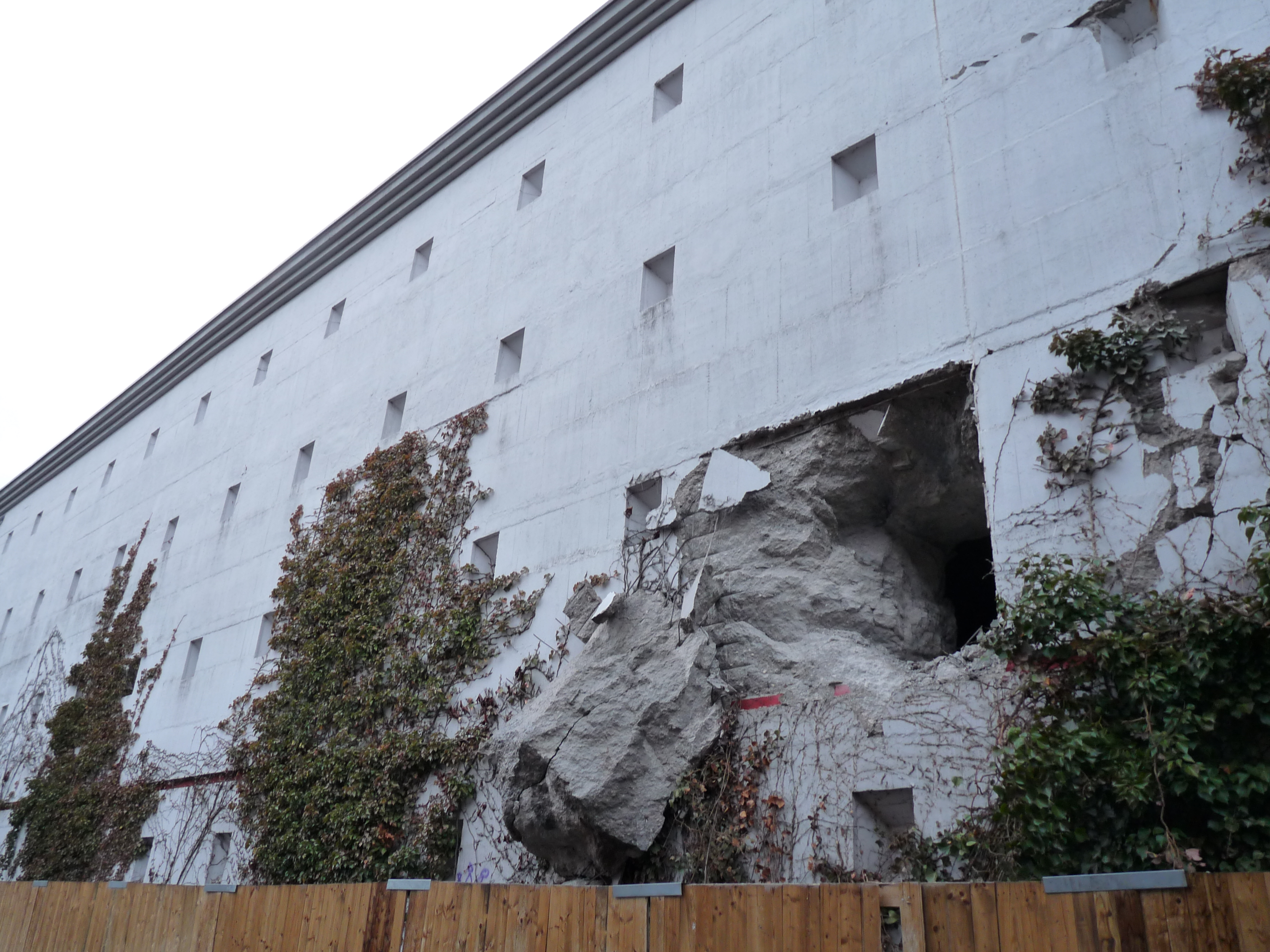 Hochbunker Ottostraße Münster: air raid shelter - hole after detonation